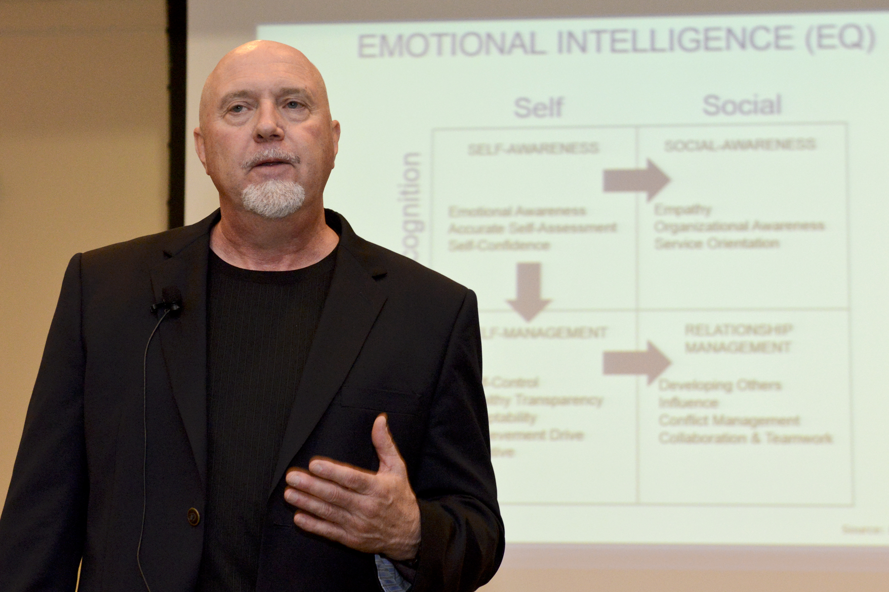 Tom Reed, president of Reliant Learning LLC, describes four stages of emotional intelligence: 'self awareness', 'social awareness', 'self-management' and 'relationship management'. He is shown speaking during The Naval Air Systems Command's (NAVAIR) “Mentoring at the Speed of Life” event on May 22, 2014 on the topics of emotional intelligence and employee engagement and how they connect to mentoring.